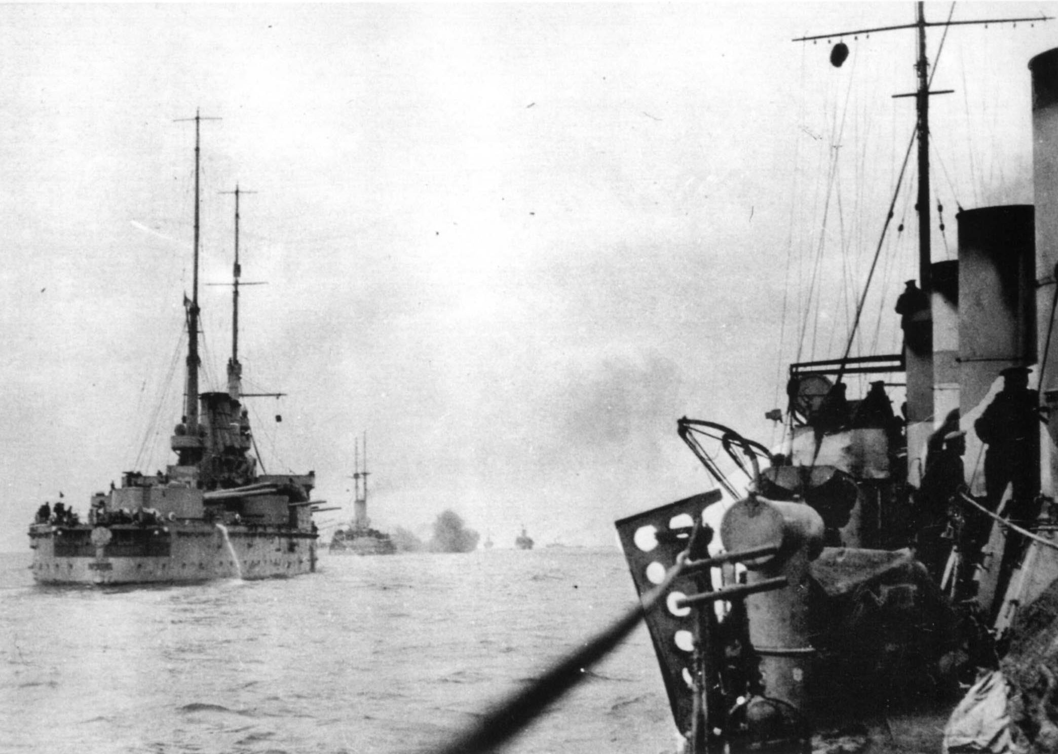 The Imperial Russian battleship Rostislav and other ships go and fire to fortress Bosporus, 15 March 1915.